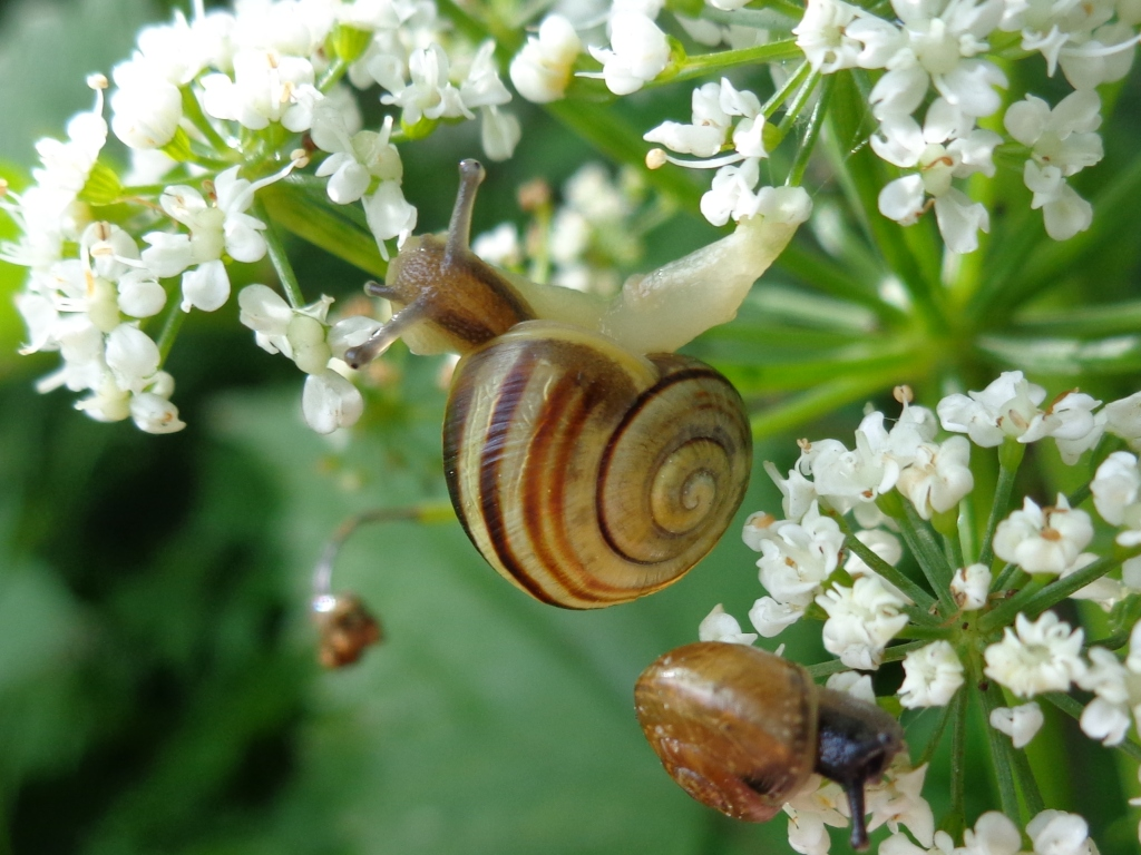 Xerolenta obvia. Found in Riga town, Latvia